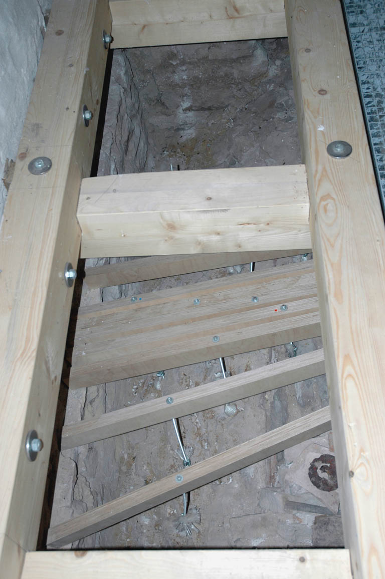 View at the supporting construction of 2006 for the choir's vault in church of St. Michael on mount St. Michael near Cleebronn.